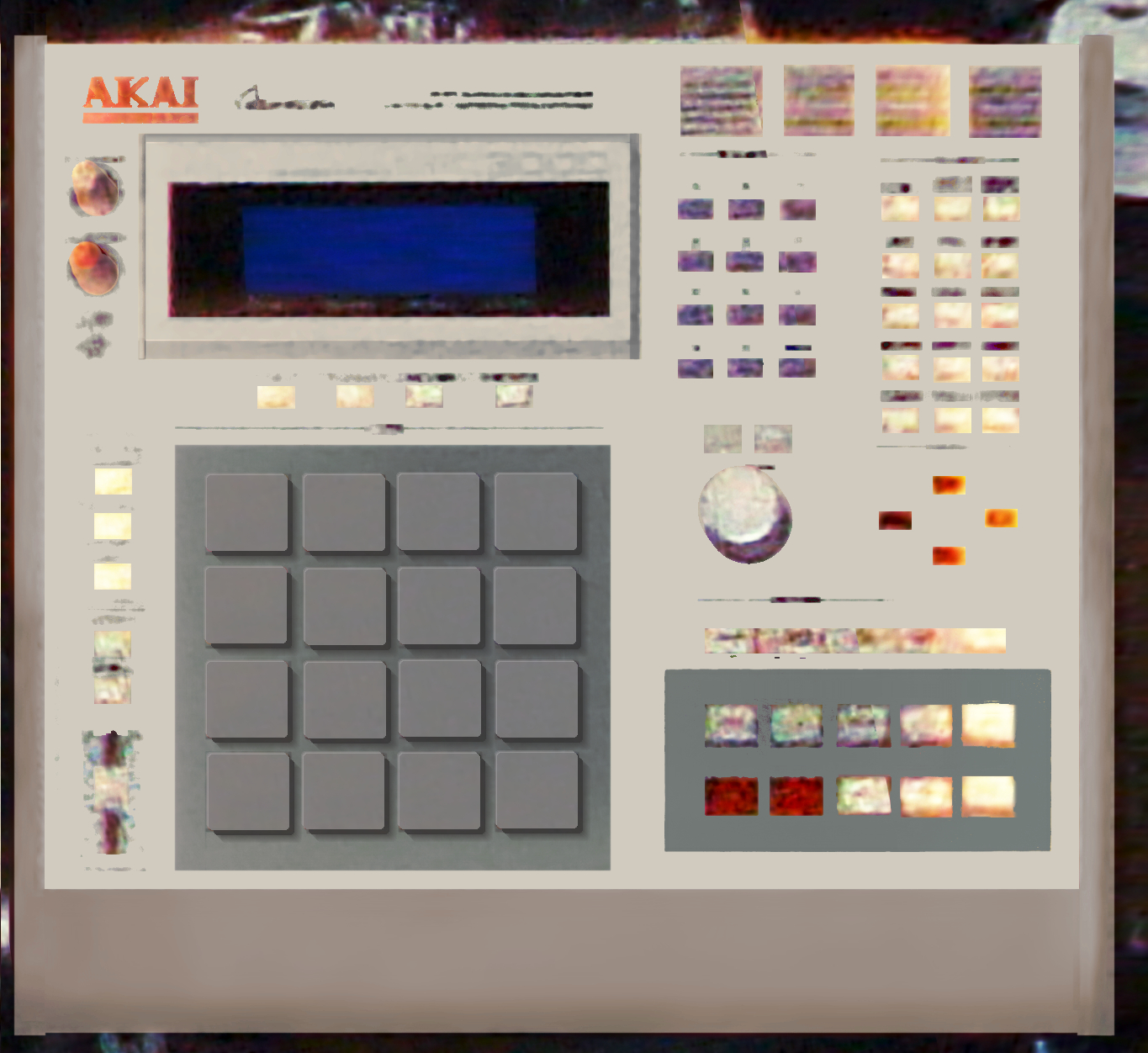 Akai MPC3000 Shawn Rudiman's Studio, Pittsburgh, PA